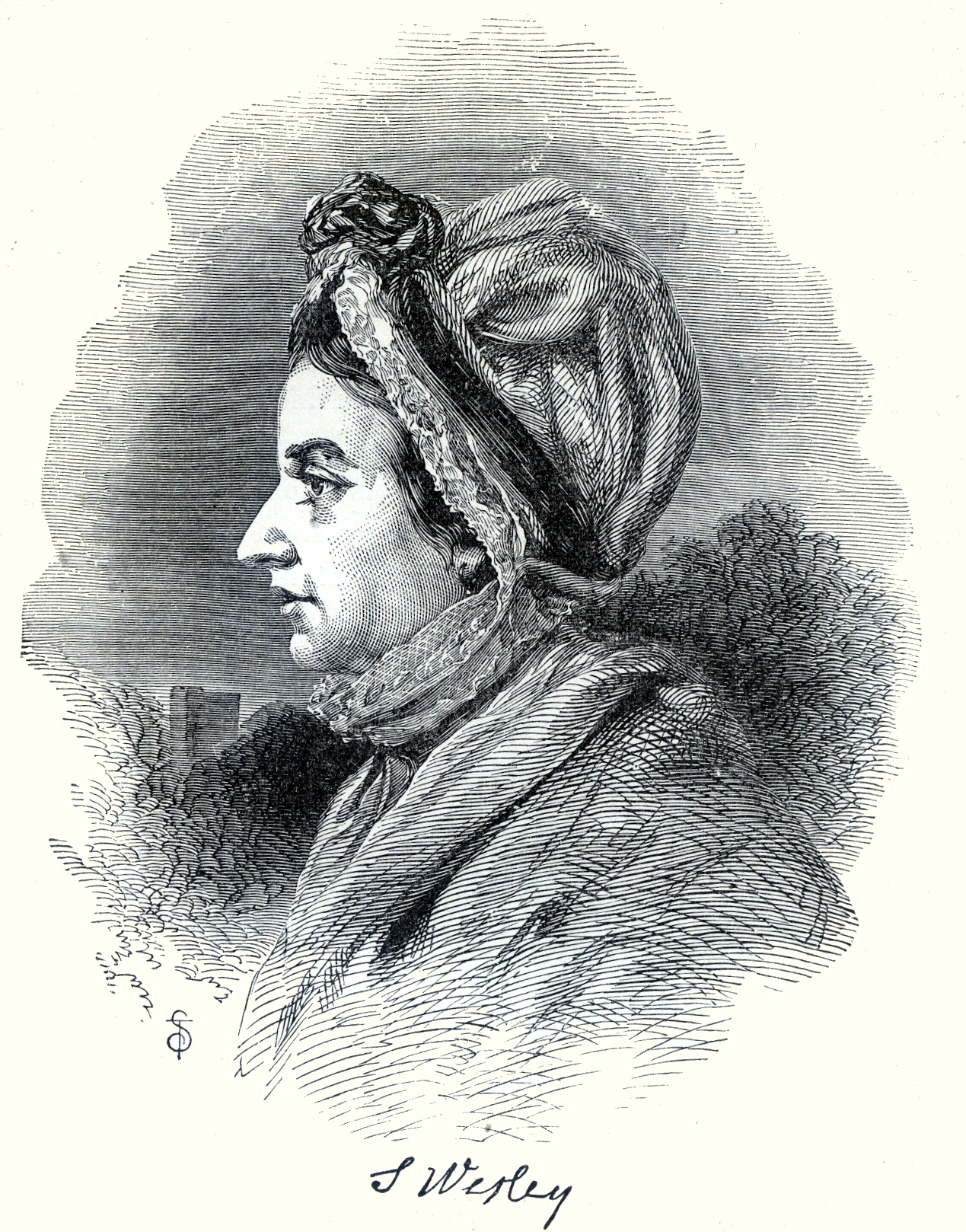 Engraving of Susanna Wesley, mother of John Wesley, the founder of Methodism.